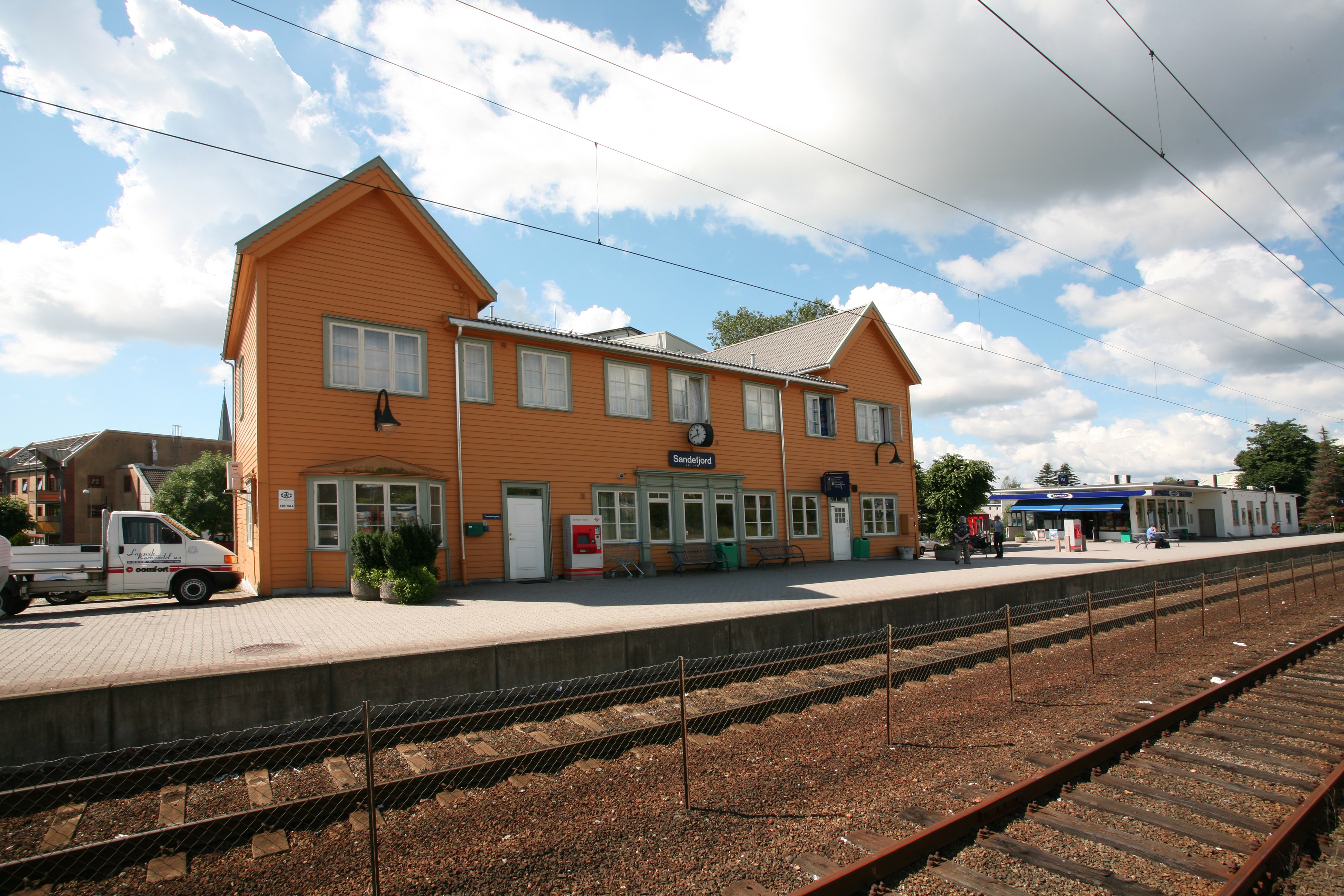 Picture of Sandefjord Railway Station (Norway)